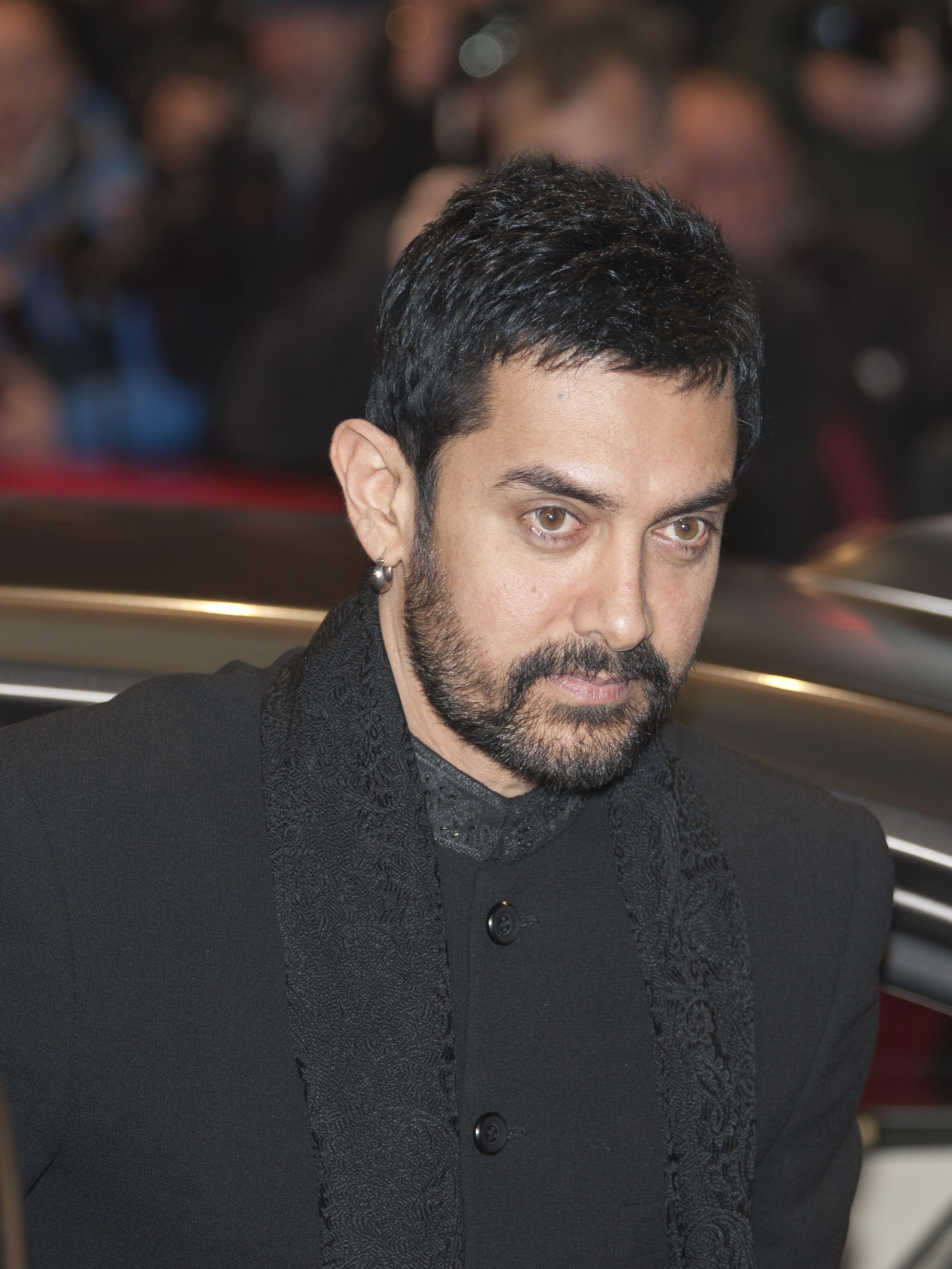 Aamir Khan, Indian actor and director, member of the international jury of the Berlinale 2011, arriving at the premiere of True Grit depicted person: Aamir Khan (age: 45.91)